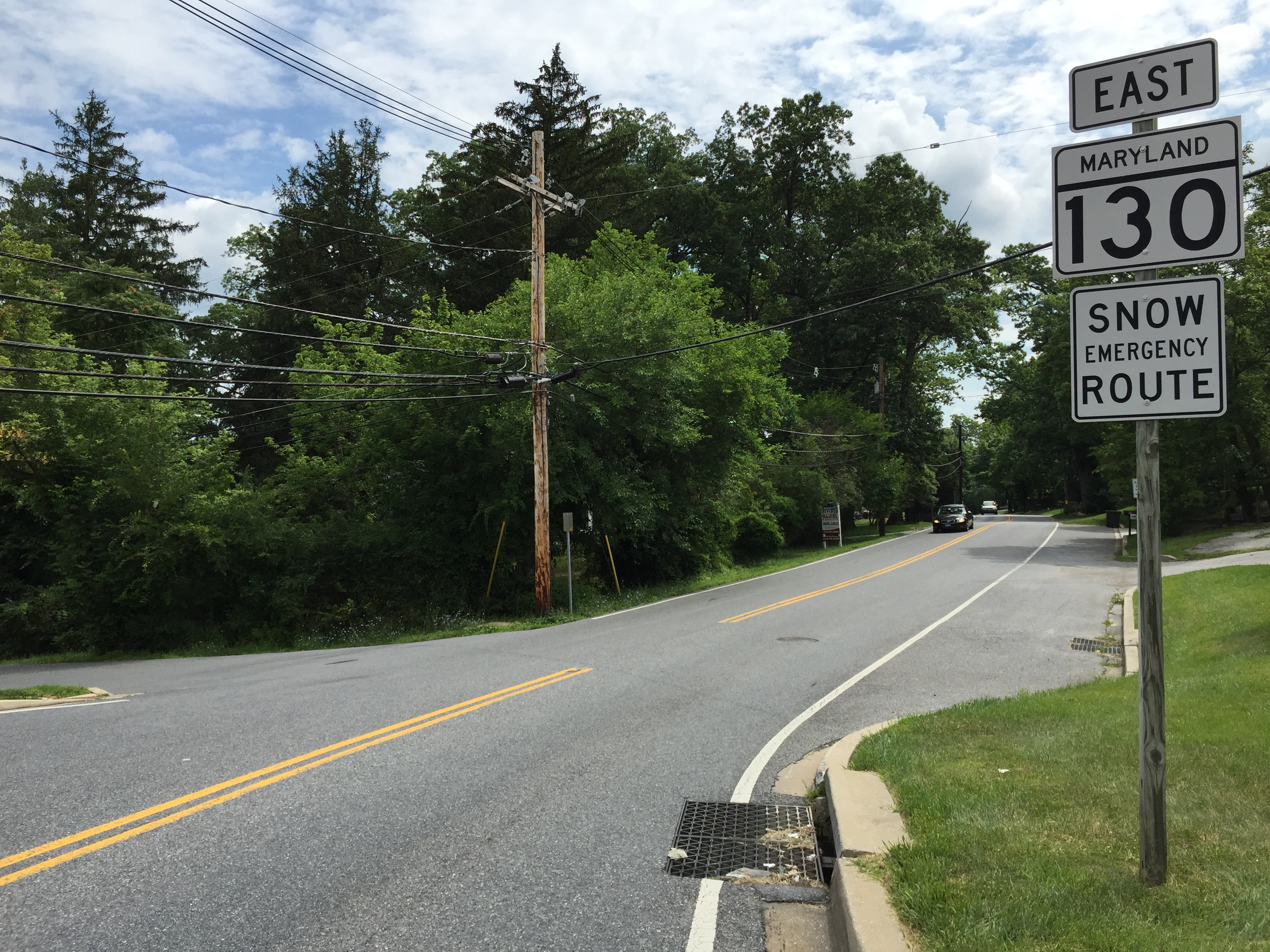 View east along Maryland State Route 130 (Greenspring Valley Road) at Turnlee Road in Garrison, Baltimore County, Maryland